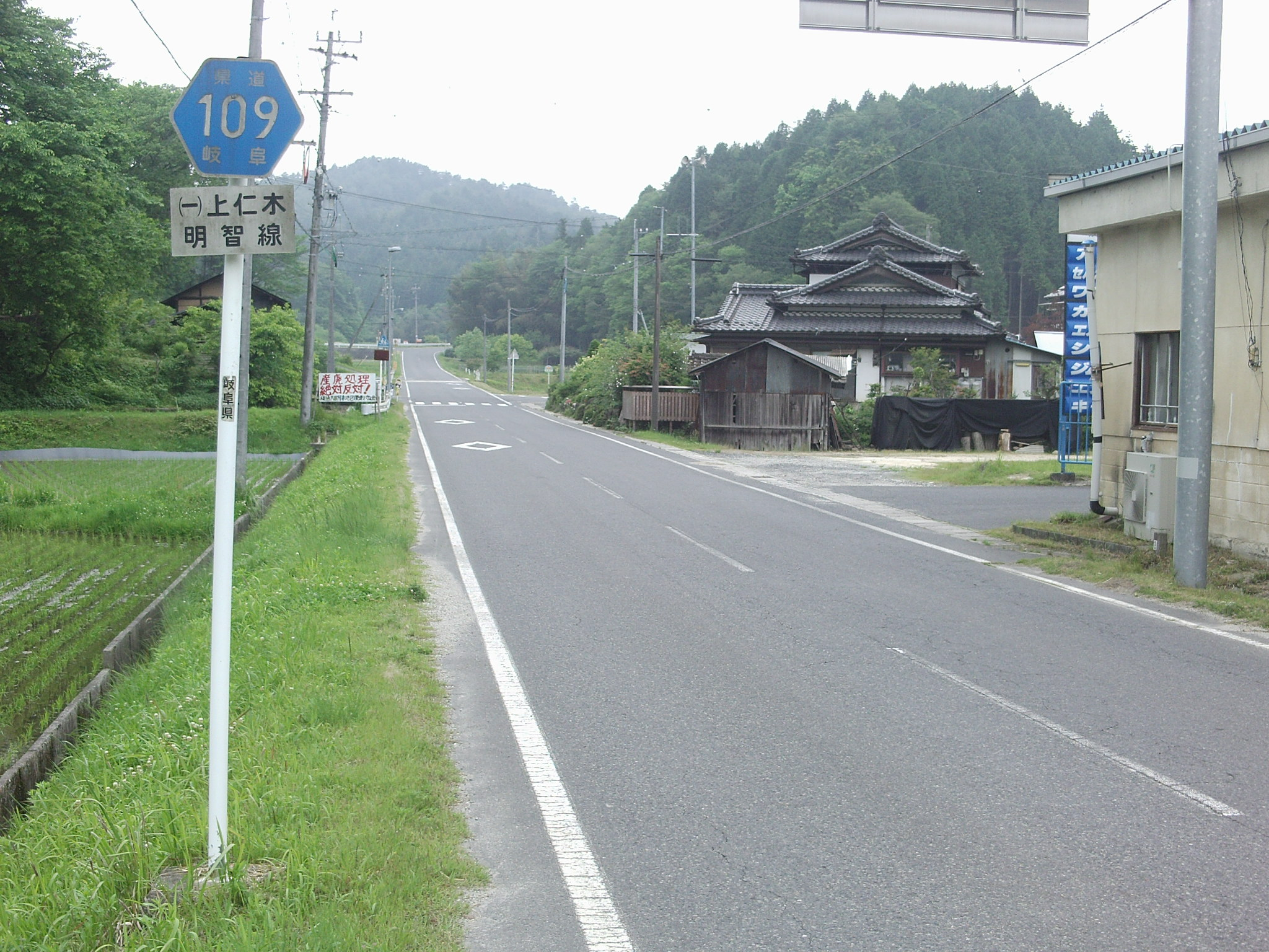 Gifu prefectural road No.109 in Akechichoota, Ena, Gifu.